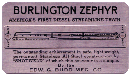 Image of a stainless steel card with two shotwelds given as souvenirs by the Budd Company featuring the Burlington Pioneer Zephyr. The company invented the process and used it first to construct the Pioneer Zephyr for Burlington. Later trains were also made from the same stainless steel as the card.